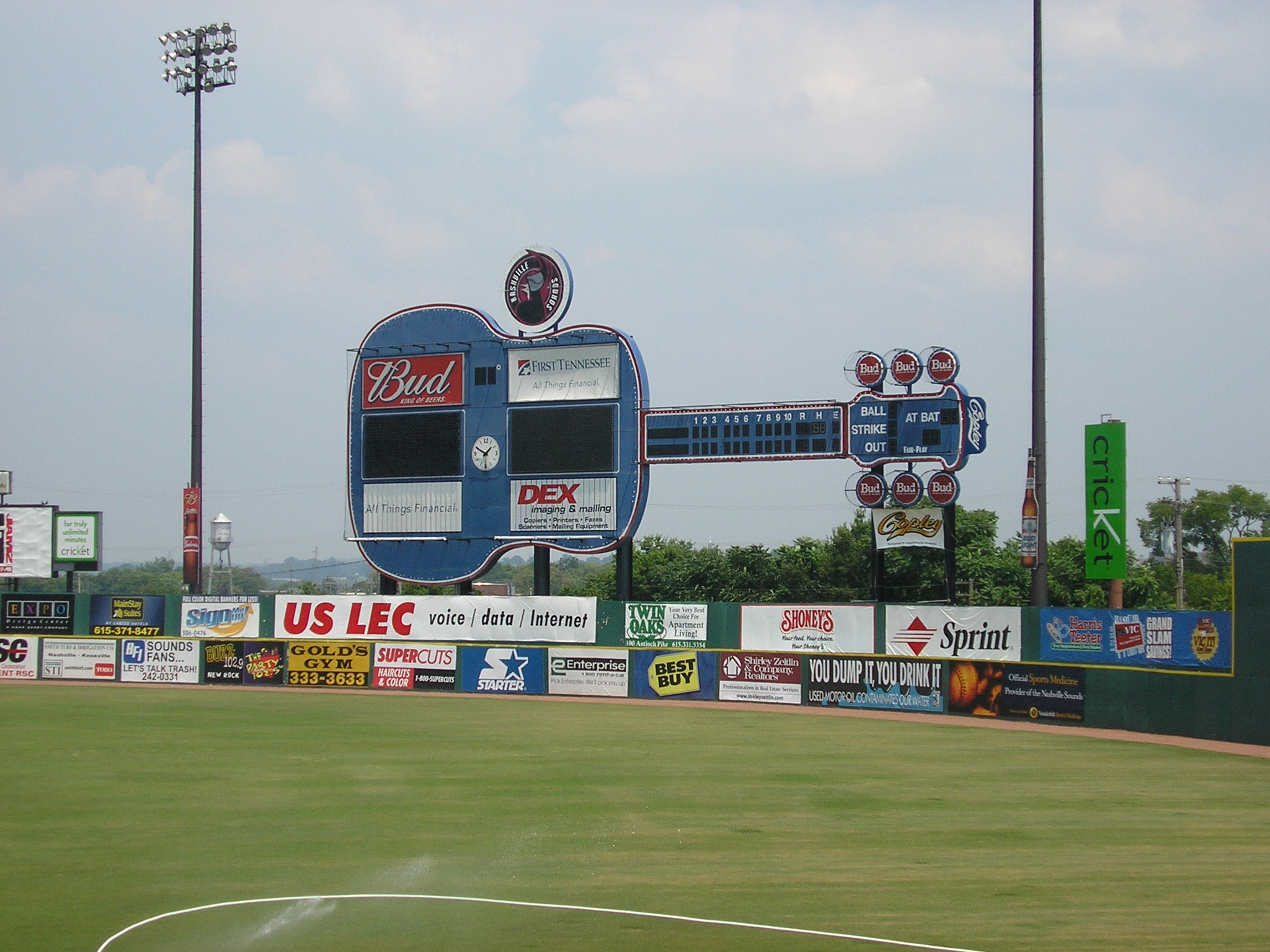 A view of the scoreboard at Herschel Greer Stadium. Taken by User:Kinu on 2005-07-25. 06:27, 15 November 2006 . . Kinu . . 2048×1536 (641,383 bytes)